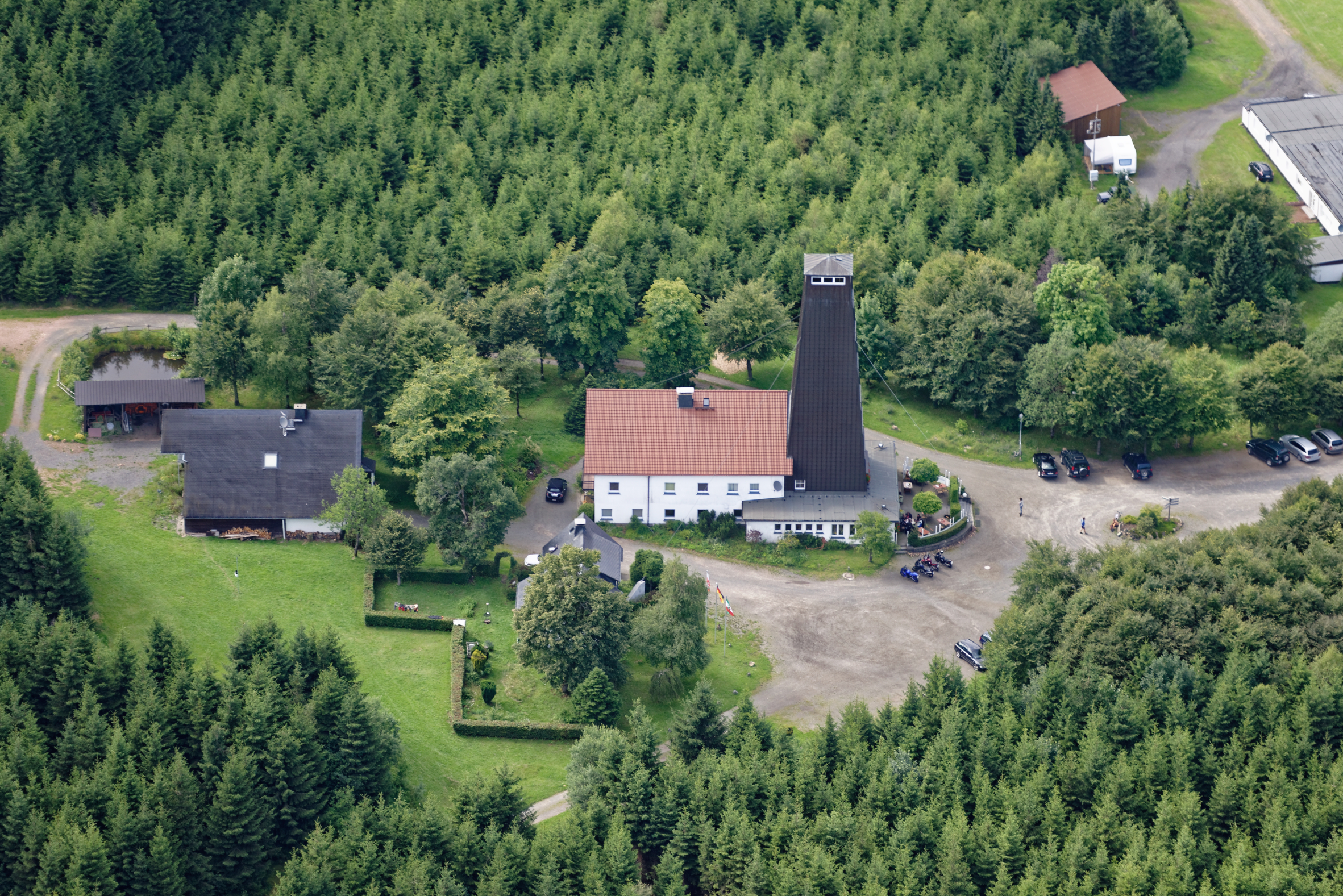 Rhein-Weser-Turm The making of this document was supported by the Community-Budget of Wikimedia Germany.